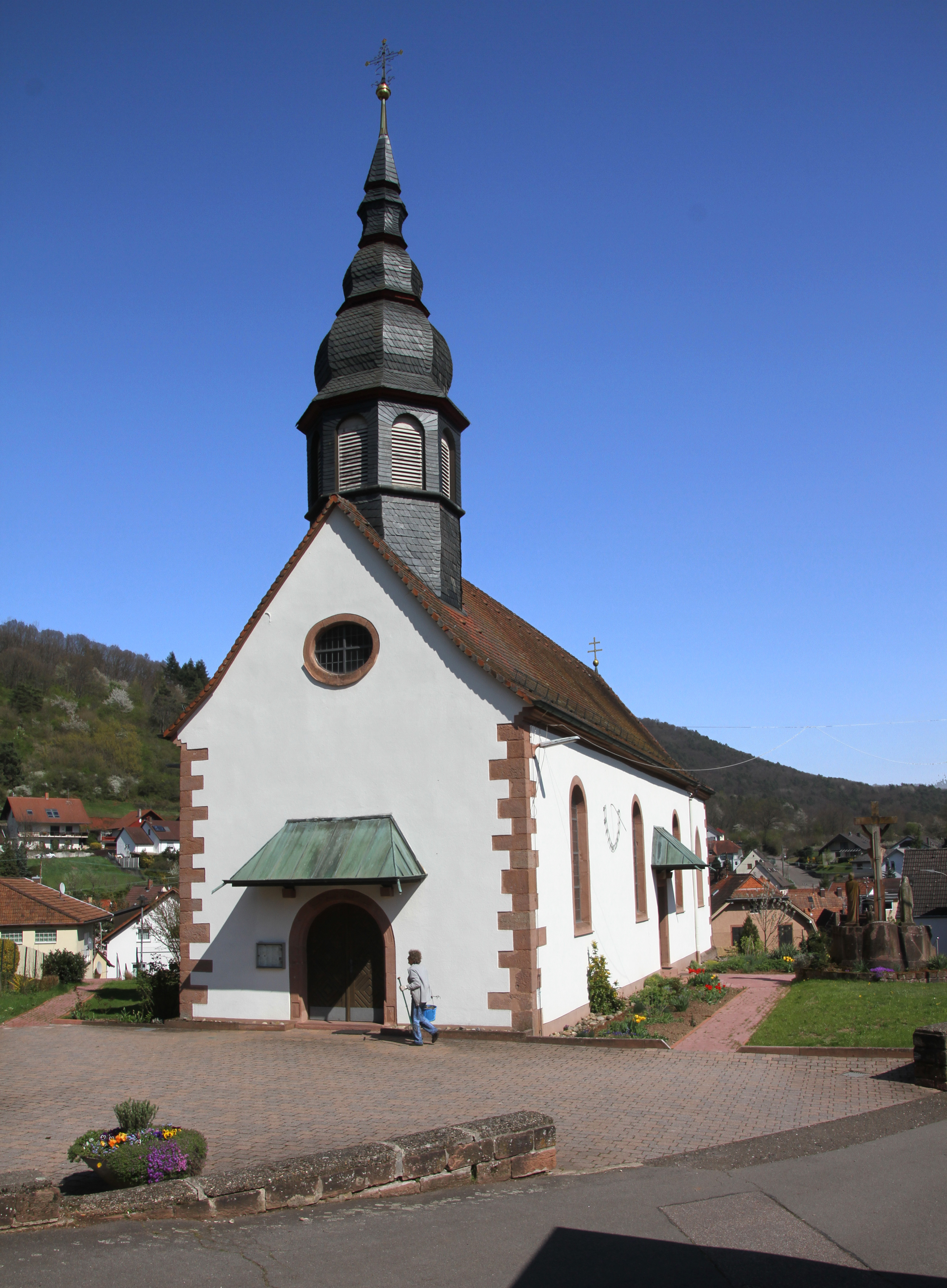 Church of Saint Wendelin in Waldhambach.